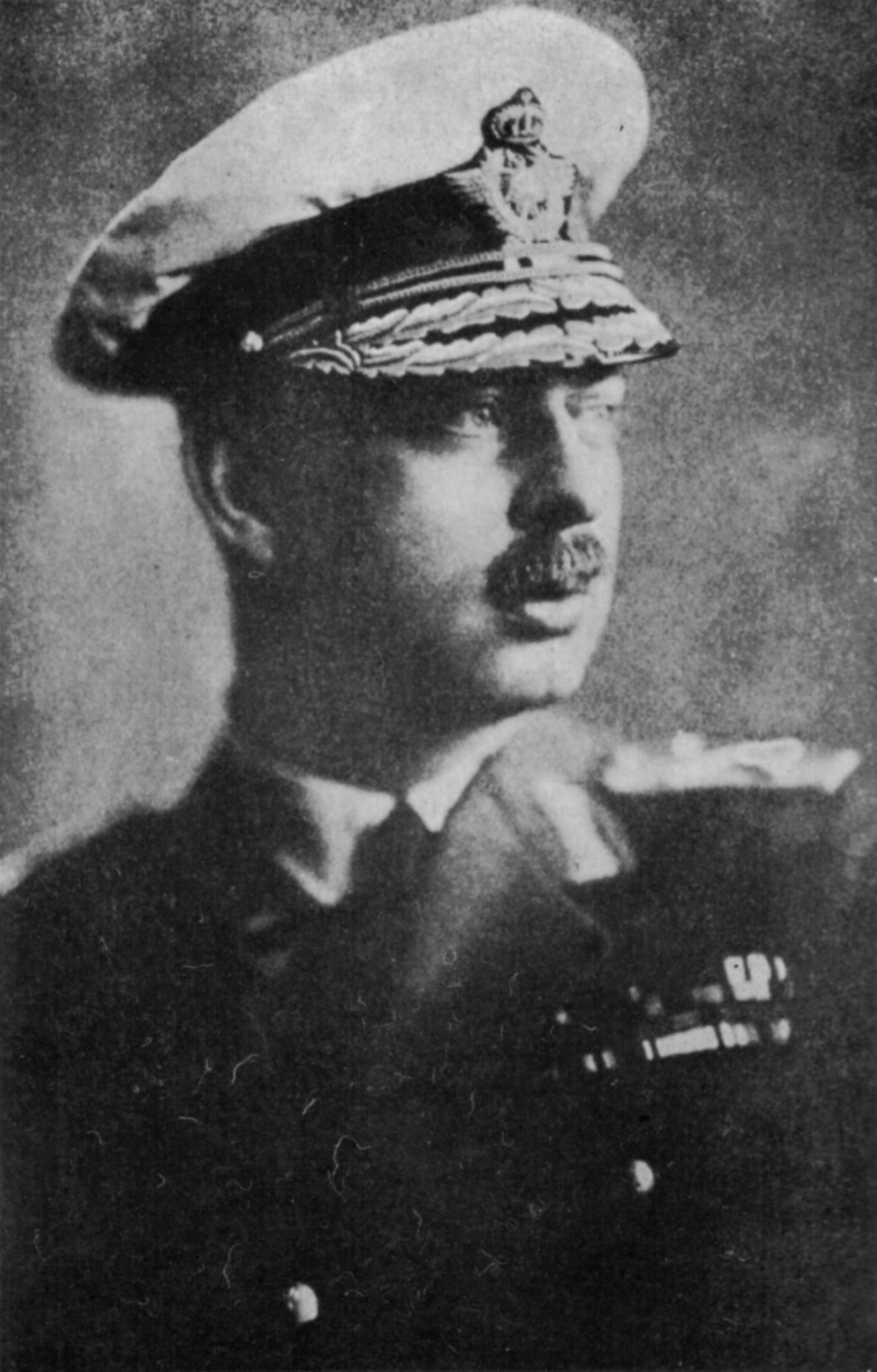 Romanian king Carol II in a portrait from 1930-1935.